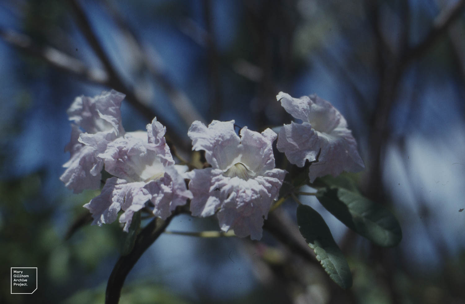 Pine Barrens. New Providence island and fire regime.